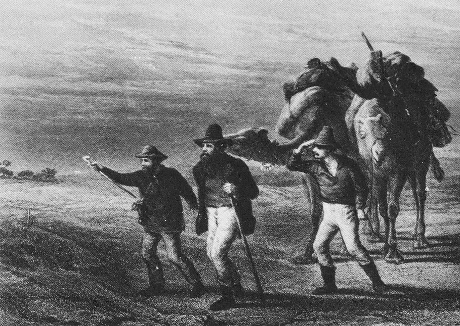 Burke, Wills and King on the way back from the Gulf of Carpentaria.